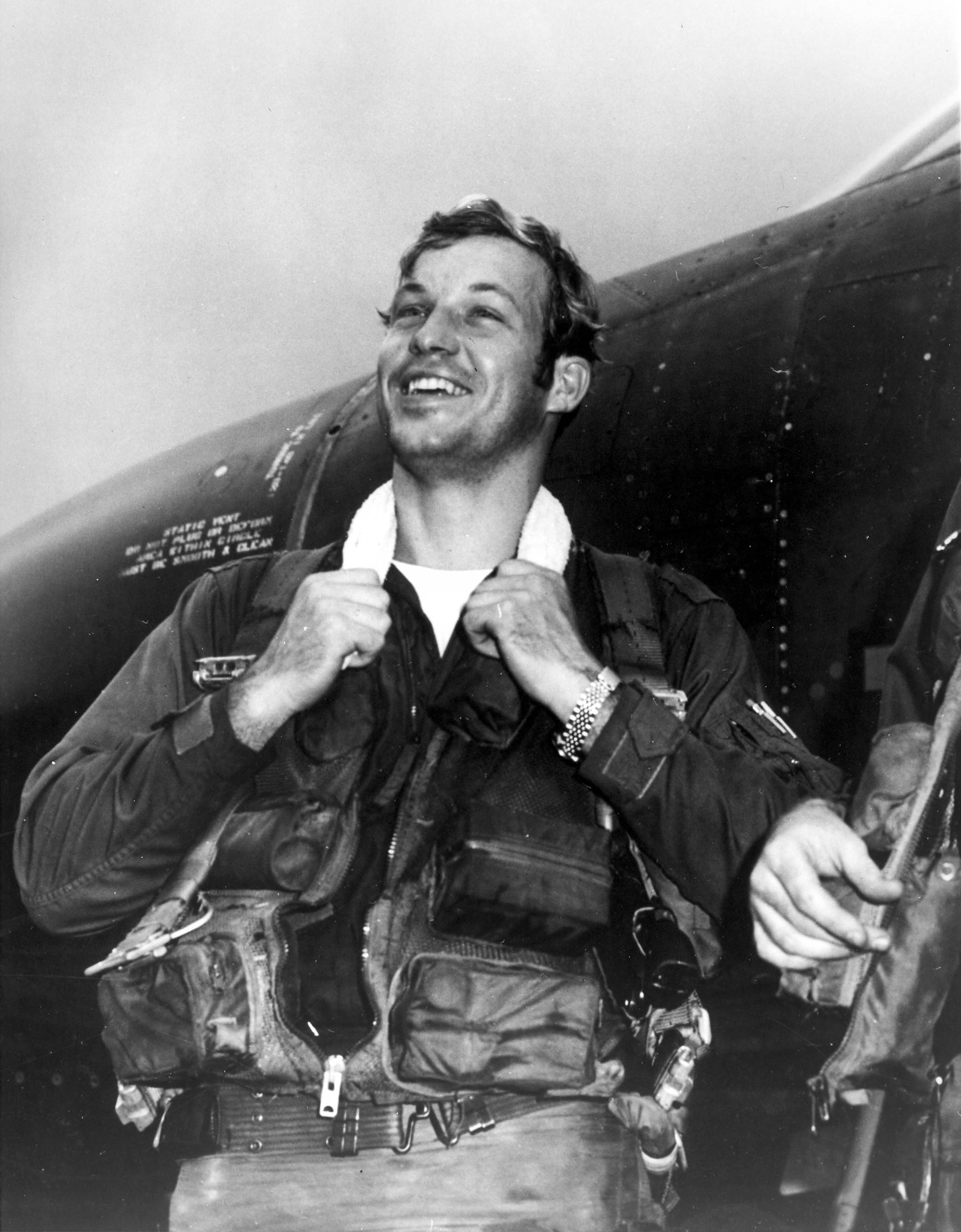 Capt. Richard S. Ritchie, in South Vietnam - 1972, with 555th Tactical Fighter Squadron, is pictured beside his aircraft following the mission in which he became the first Air Force ace of the Vietnam conflct. (U.S. Air Force photo)